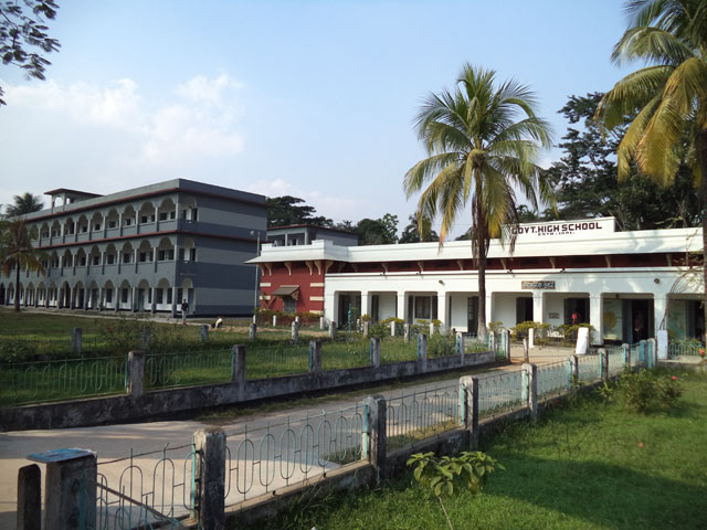 Moulvibazar Government High School class room building and the administrative building